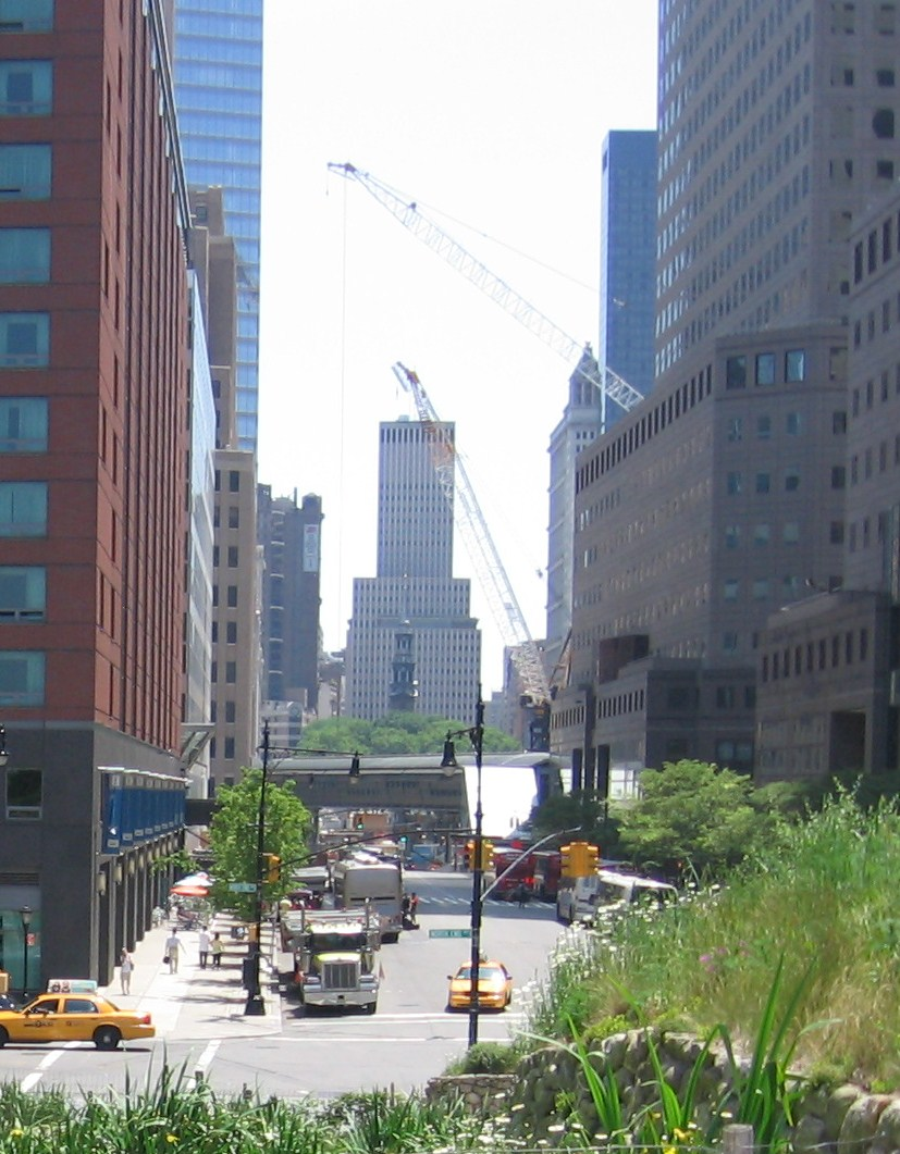 The far-western end of , looking east toward the north side of the World Trade Center site in Manhattan, New York City, seen from the Irish Hunger Memorial (plants in foreground are part of the memorial). One of the World Financial Center buildings is on the right. Saint Paul's Chapel and 222 Broadway in distance.